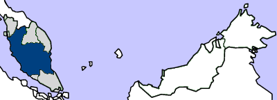 Map of federated malay states